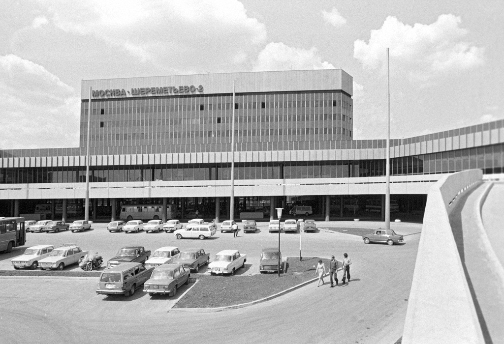 “Sheremetevo-2 international airport”. Sheremetevo-2 international airport.